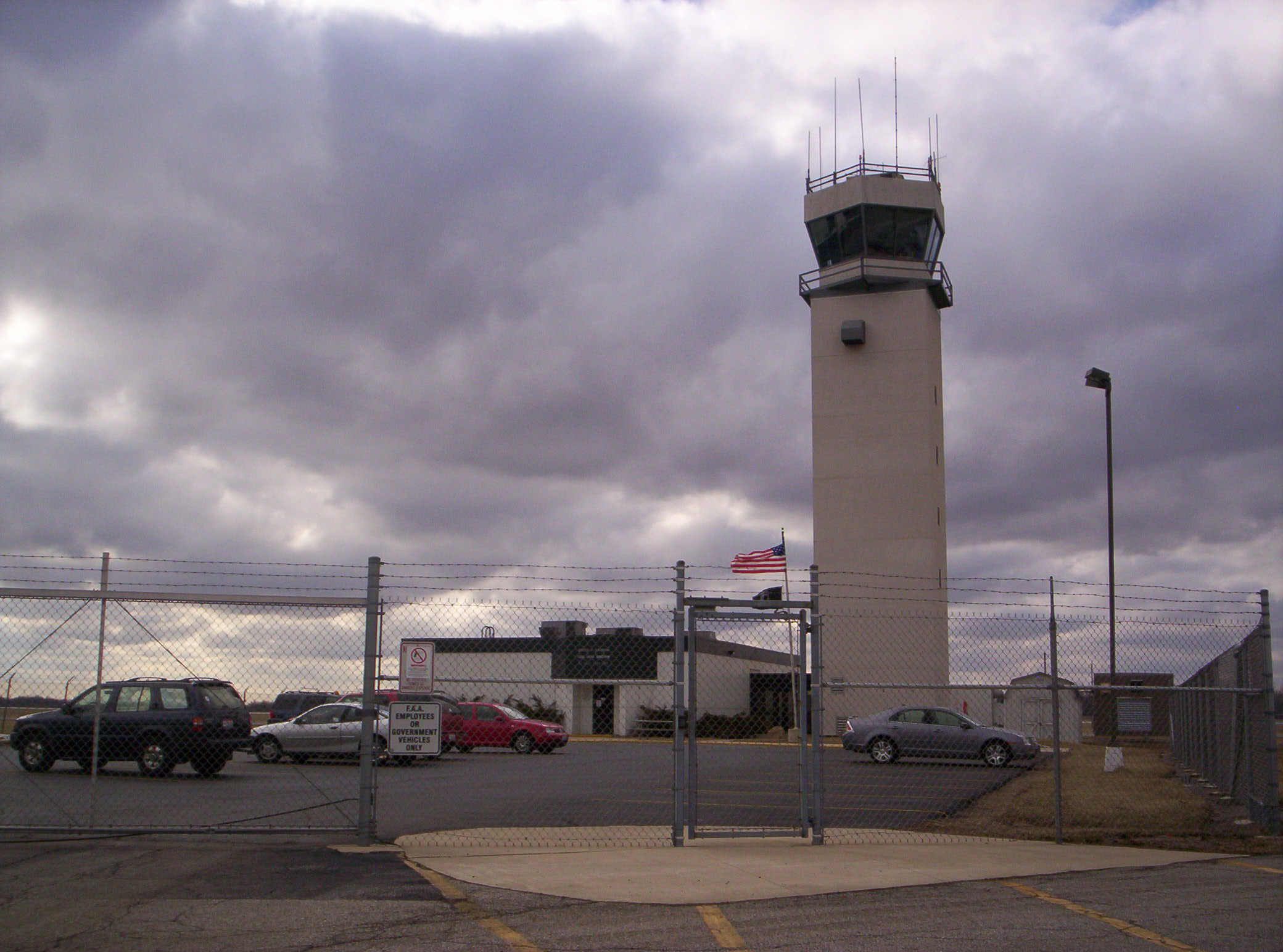 Mansfield Lahm Regional Airport in Mansfield, Ohio.